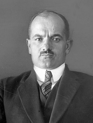 Roman Górecki (1889-1946)